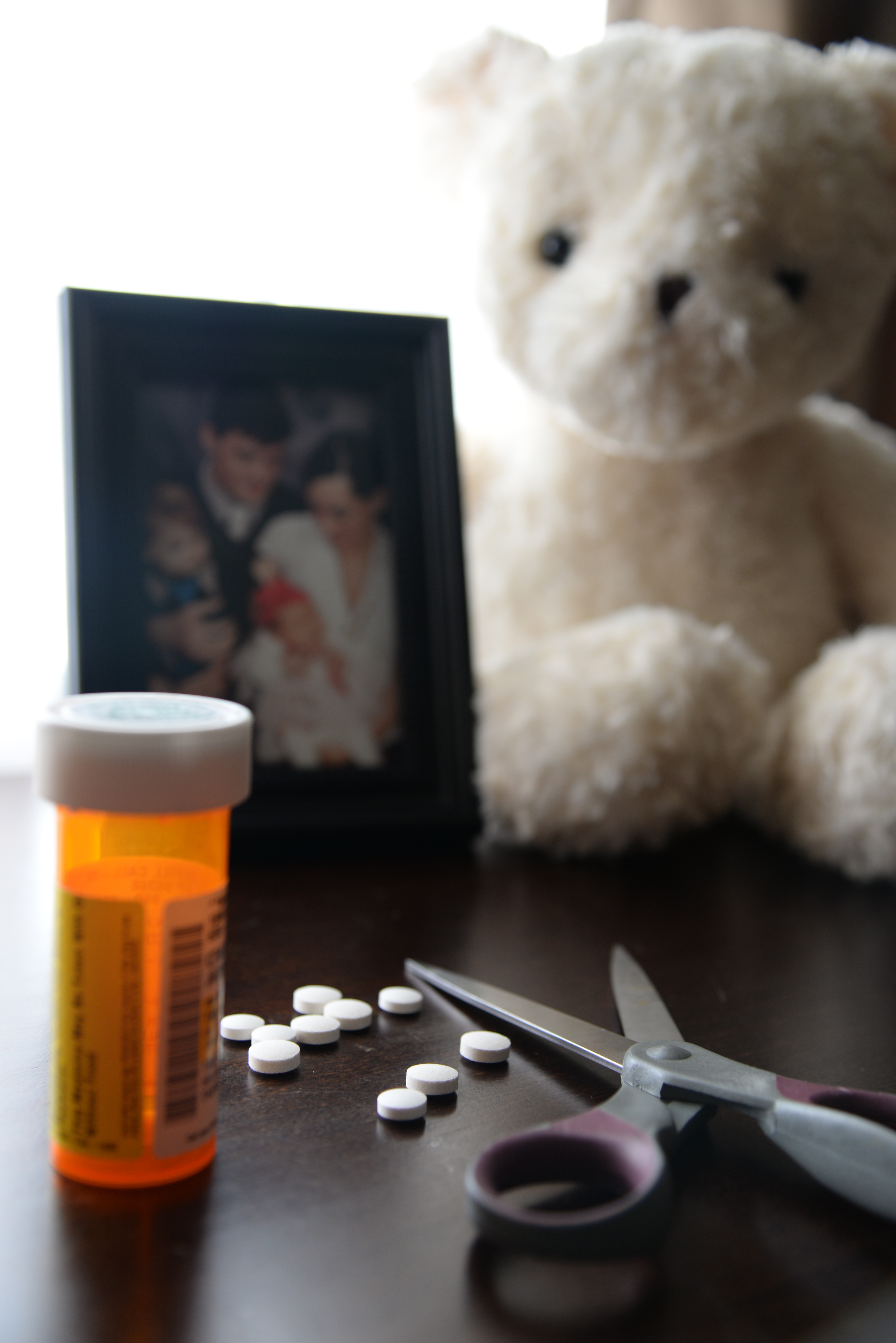 According to the Office of National Drug Control Policy, prescription drugs are the second-most abused category of drugs after marijuana among young people. ONDCP continues by stating that illicit drug use in the U.S. military has increased from five percent to 12 percent among active duty service members from 2005 to 2008, primarily due to non-medical use of prescription drugs. The latest National Survey on Drug Use and Health shows that over 70 percent of people who abused prescription pain relievers got them from friends or relatives, while approximately 5 percent got them from a drug dealer or over the Internet. For more information about prescription drug abuse and prevention visit: (U.S. Air Force photo illustration by Staff Sgt. Amber E. N. Jacobs) Unit: 18th Wing Public Affairs DVIDS Tags: Kadena; Kadena Air Base; Air Force; U.S. Air Force; Amber E. N. Jacobs; DA409; Medication Abuse; Staff Sgt. Amber Jacobs; SSgt Amber Jacobs; Staff Sgt Amber E. N. Jacobs; Prescription Drug Abuse